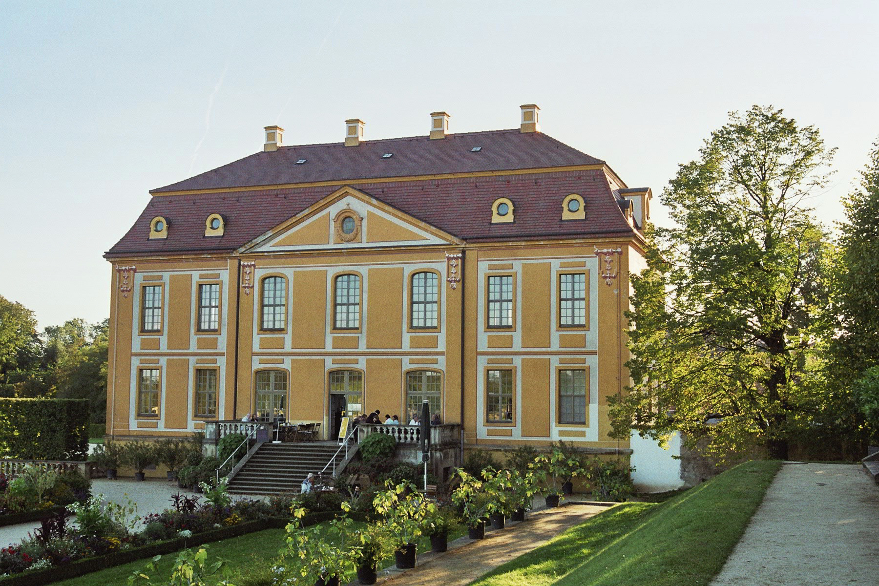 This image shows the Friedrichschlösschen in the Großsedlitz baroque garden in Heidenau near Dresden in Saxony, Germany.